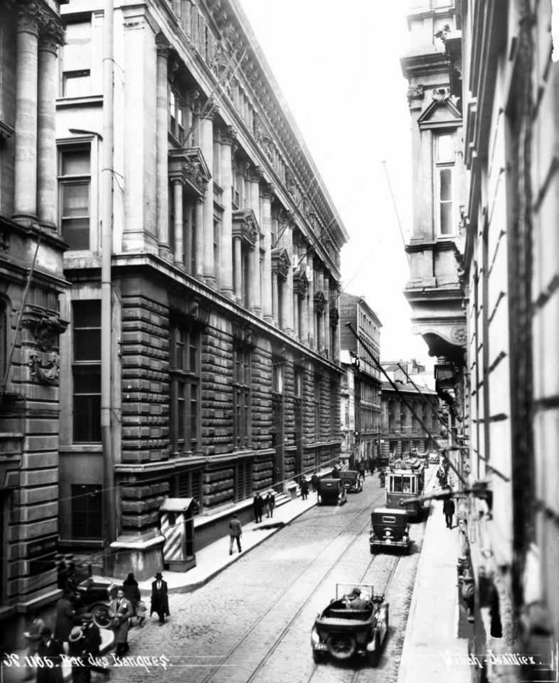 Bankalar Caddesi (circa late 1920's).